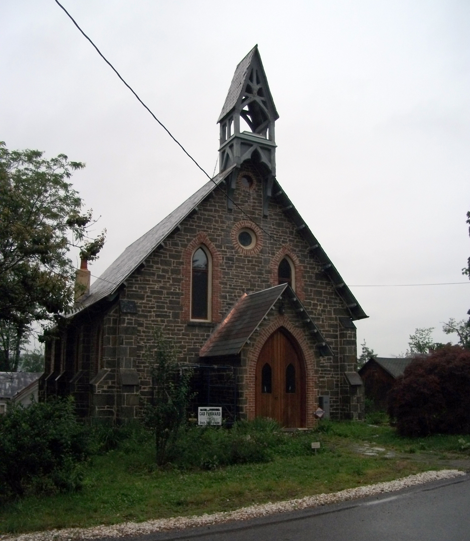 Riverside Methodist Church and Parsonage — in Rhinecliff, Rhinebeck, New York. Within the Hudson River Historic District.